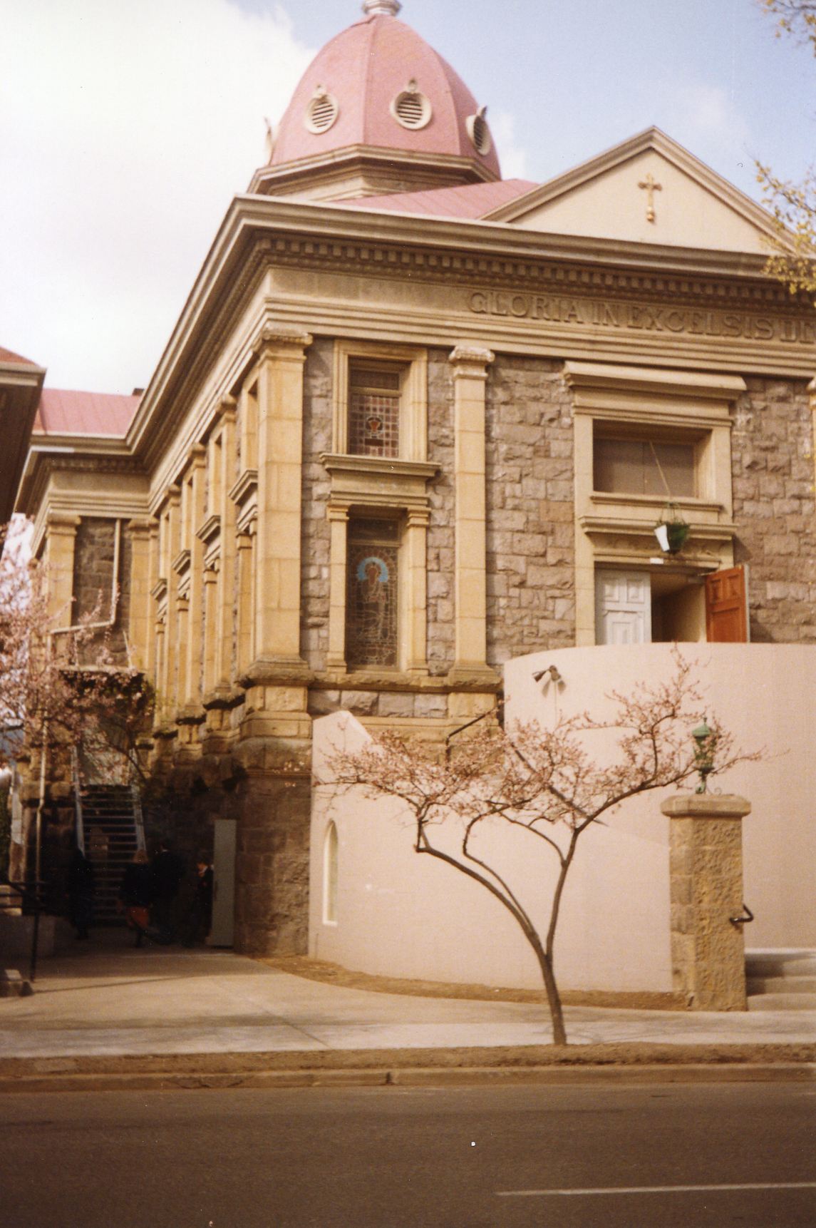 St Patrick's Church, Portland, Oregon